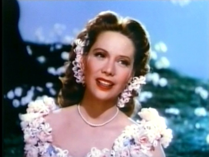 Cropped screenshot of Dinah Shore from the film Till the Clouds Roll By.